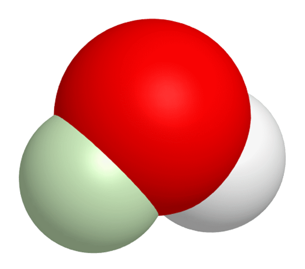 3D Space-filling Model of Partially tritiated water